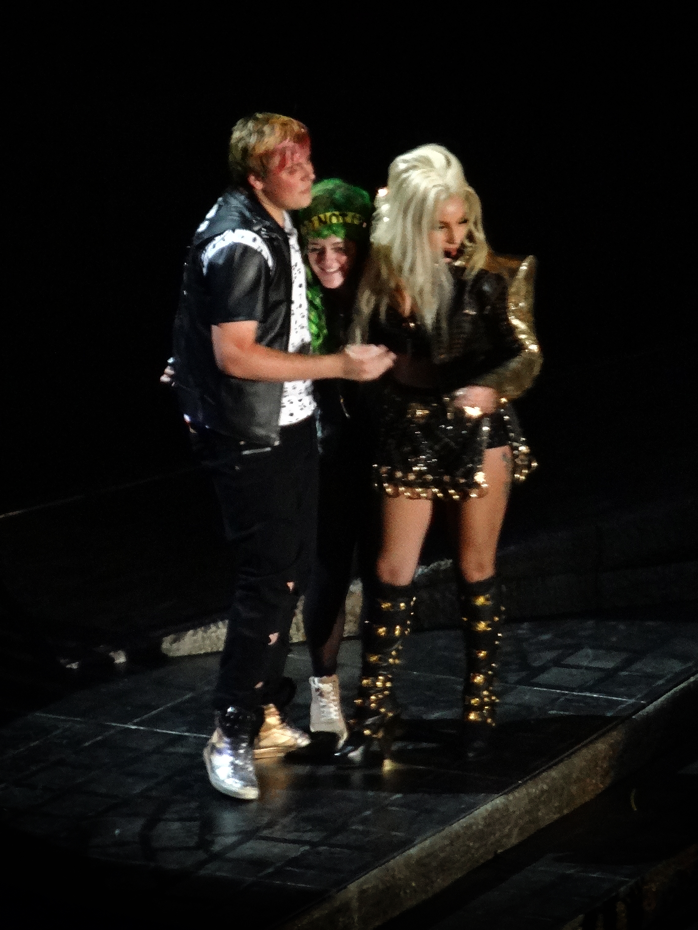 Lady Gaga performing "Marry the Night" on The Born This Way Ball Tour.